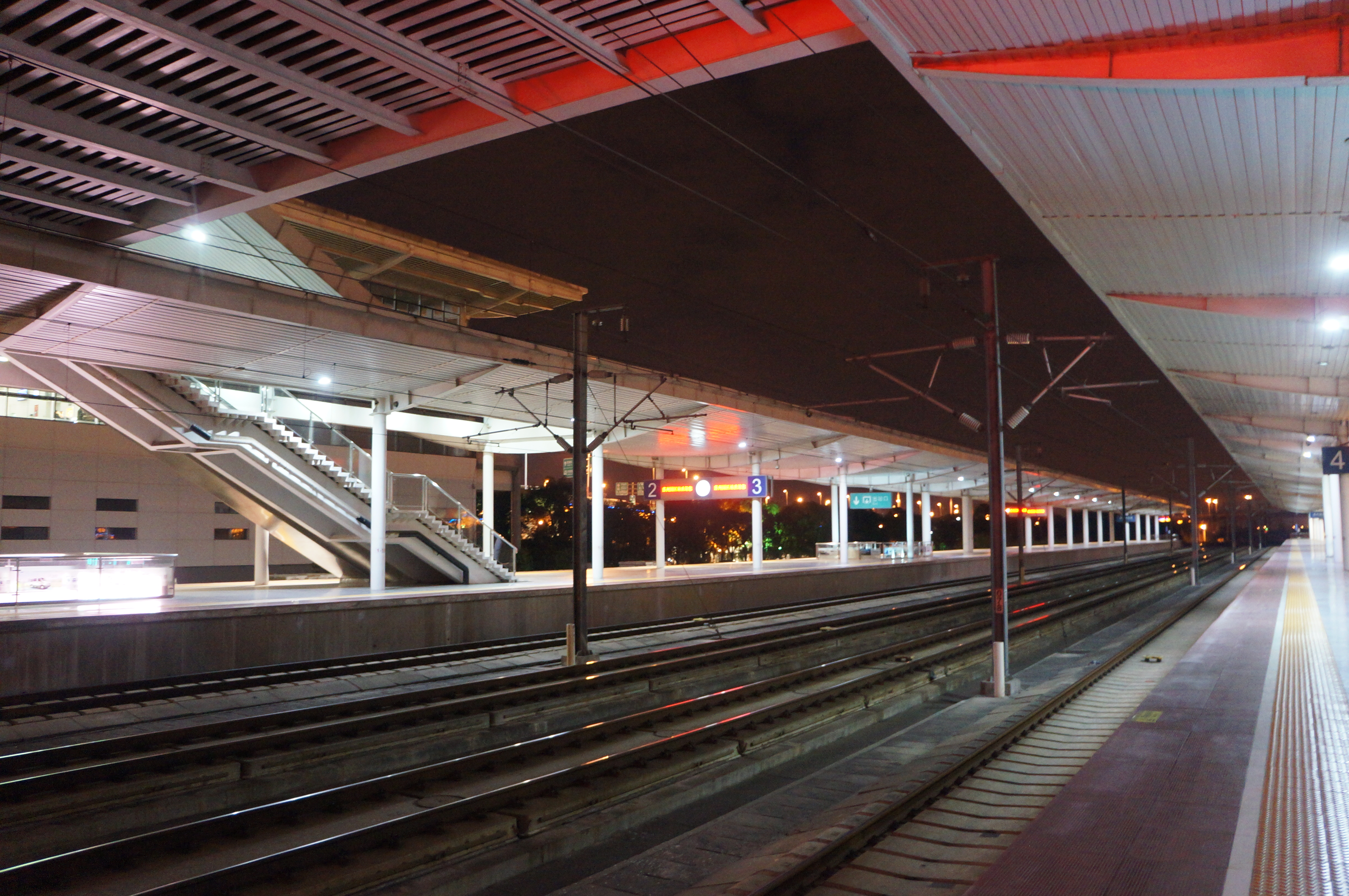 201701 Platforms at Suzhou Yuanqu Station, huge amount of passengers